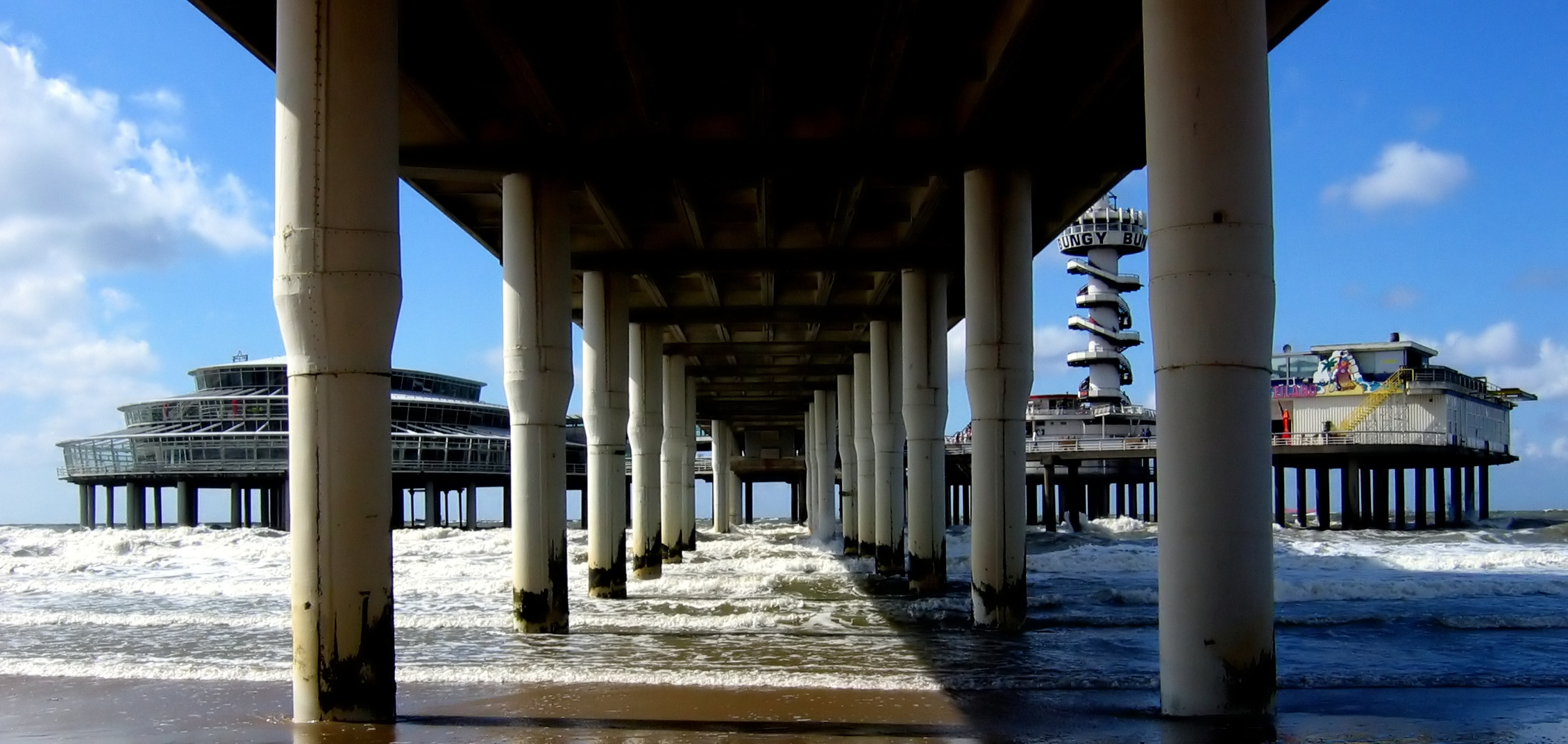 Pier on the Scheveningen beach (The Netherlands).